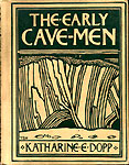 Book cover of "The early cave men" by Katharine Elizabeth Dopp, published 1907 in Chicago